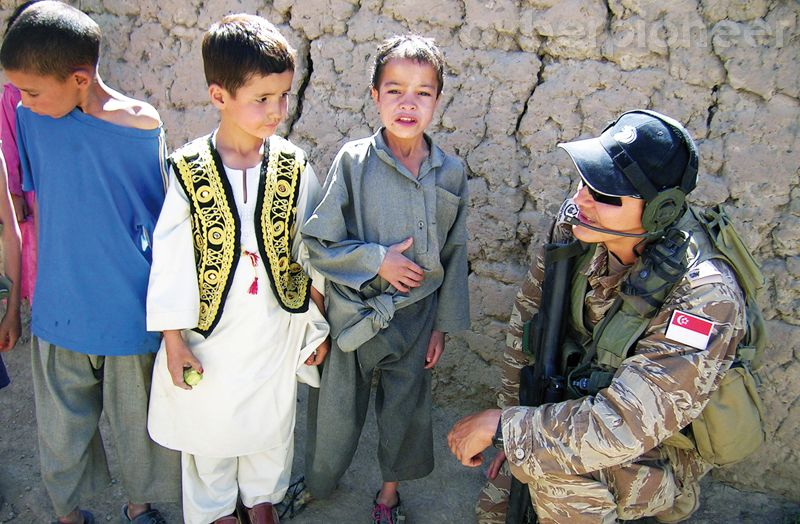 The following is the author's description of the photograph quoted directly from the photograph's Flickr page."With the new bridges, the villagers will be able to travel to the hospital, market and other key facilities more conveniently and safely. Courtesy Singapore Ministry of Defence "